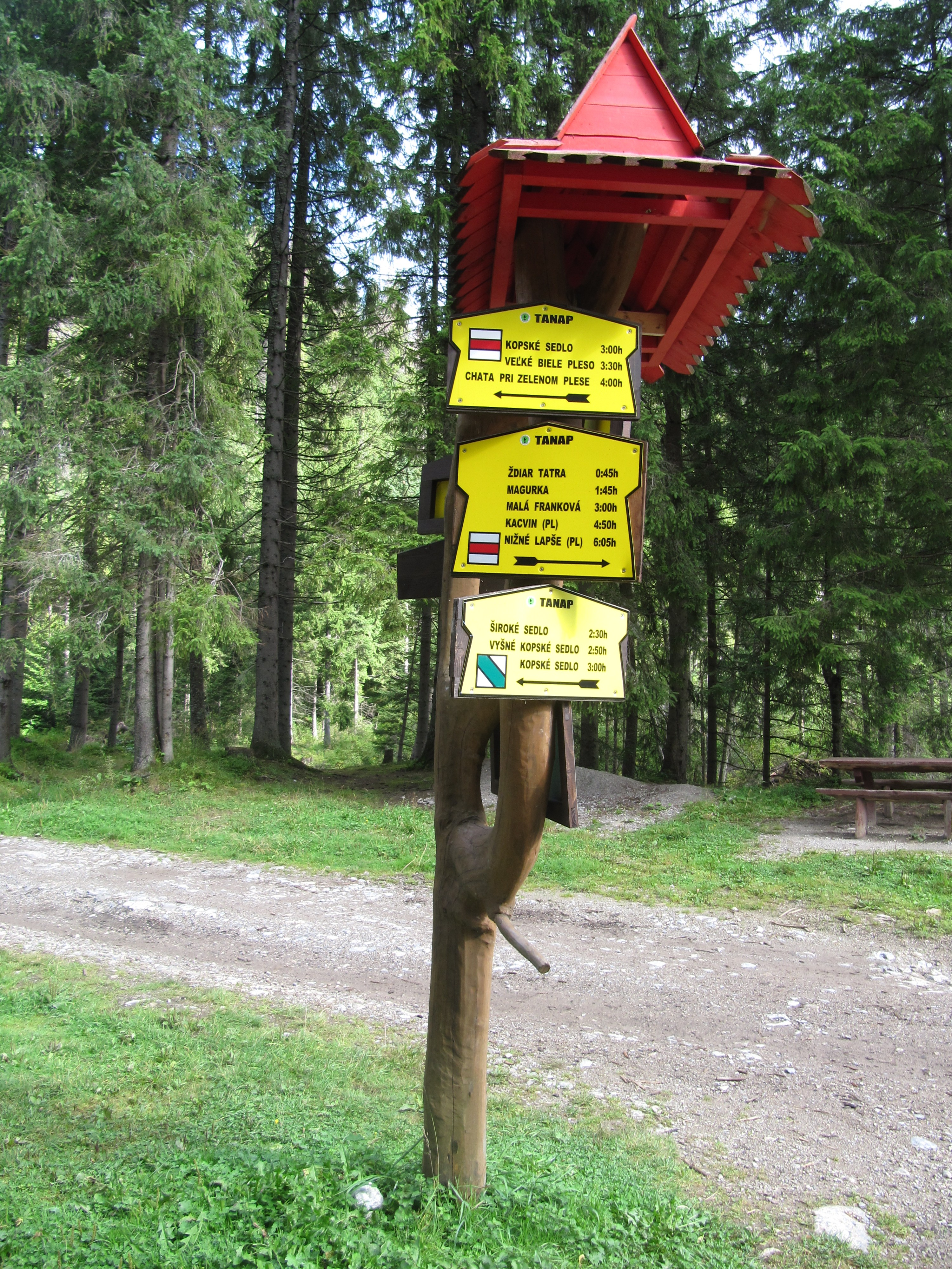 Belianske Tatra Mountains, Slovakia. Monkova dolina valley.